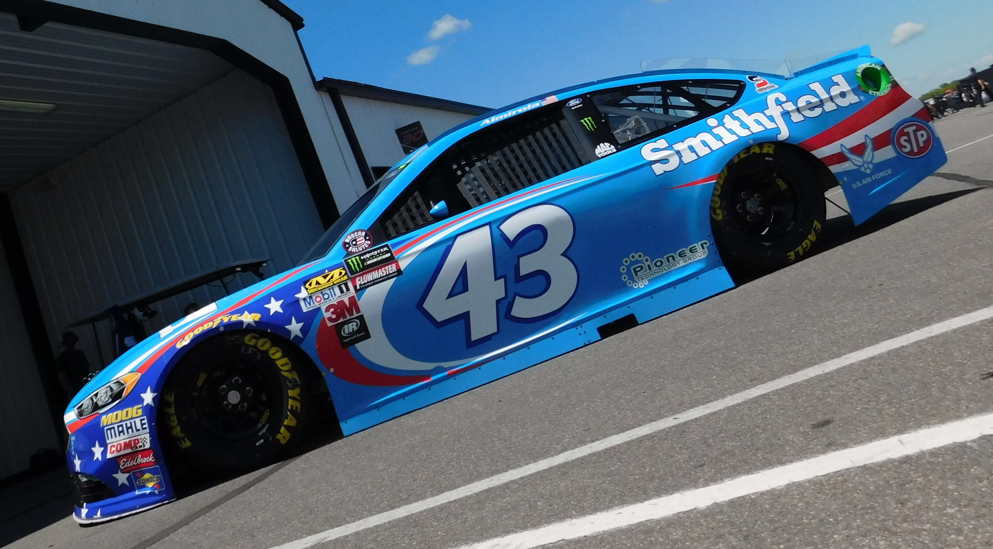 Bubba Wallace's No. 43 Smithfield Ford at Pocono Raceway in 2017